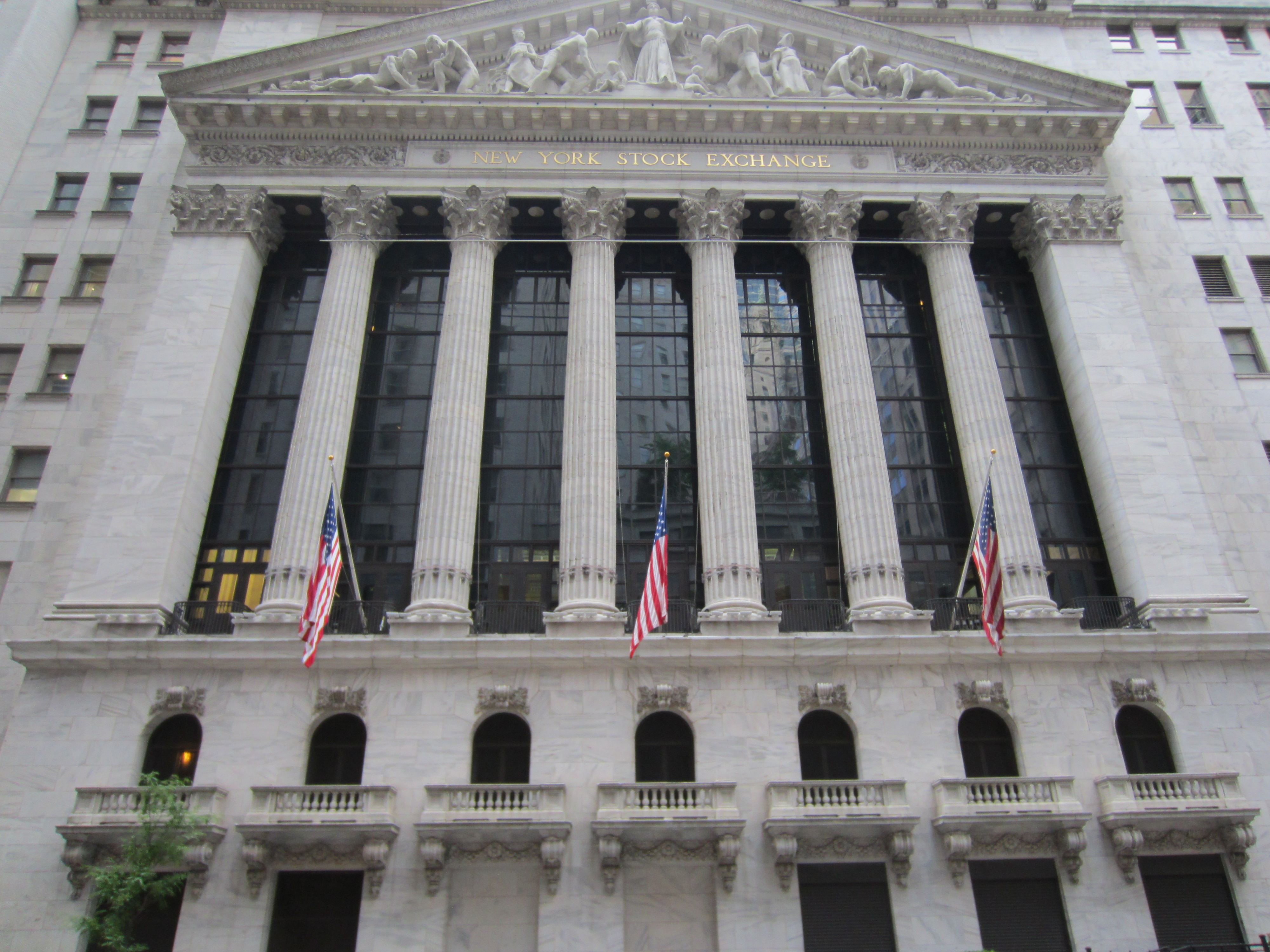 New York City (May 2014)